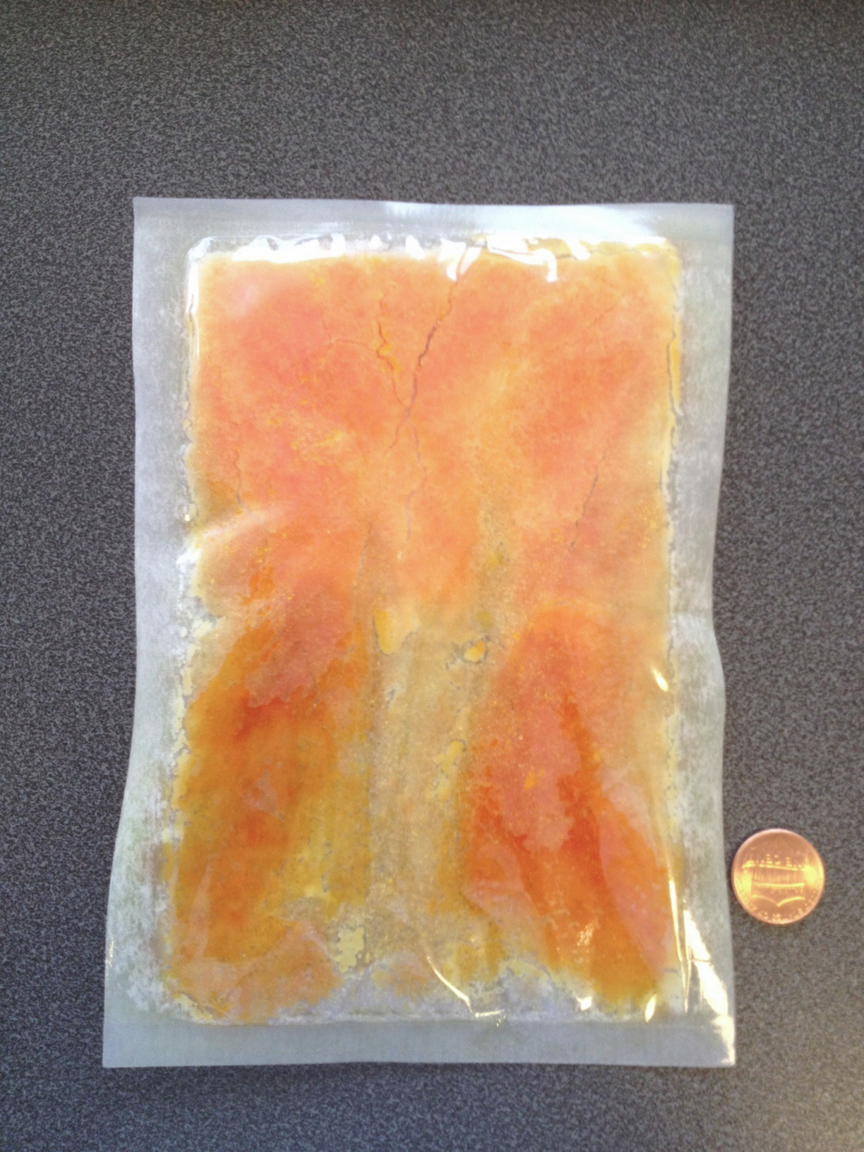 Osmotic hydration bag to produce a sugar drink using brackish water sources